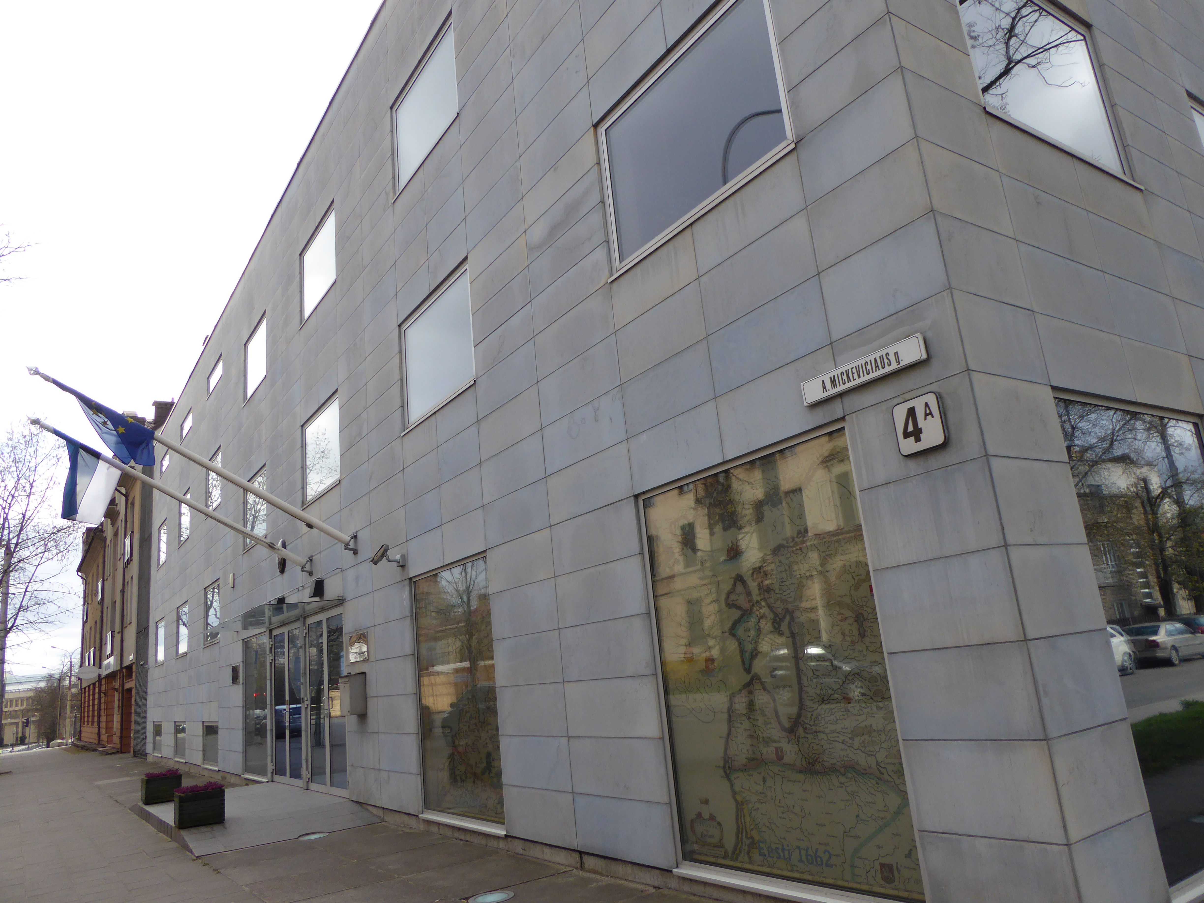 Estonian Embassy, A. Mickevičiaus Street, Vilnius, Lithuania, April 2015